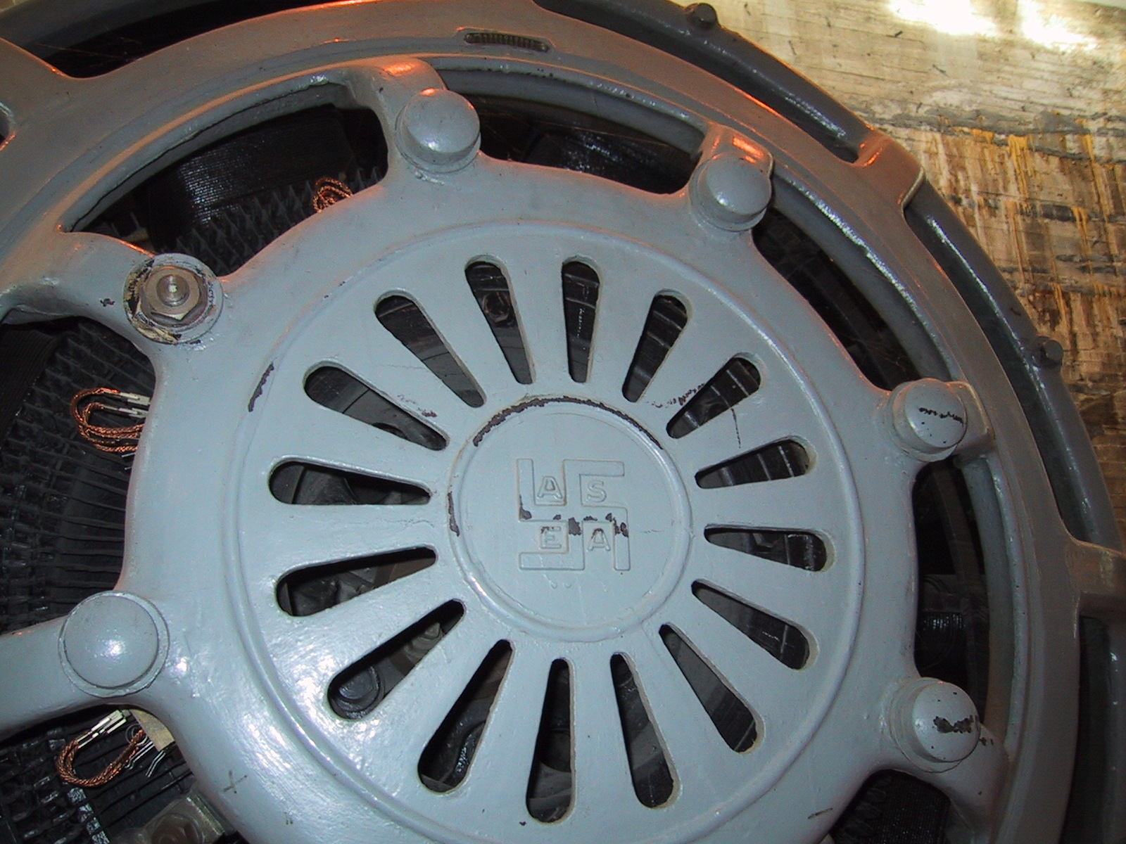 End bell of an ASEA Hydro generator at Point du Bois, Manitoba, showing pre-1933 logo